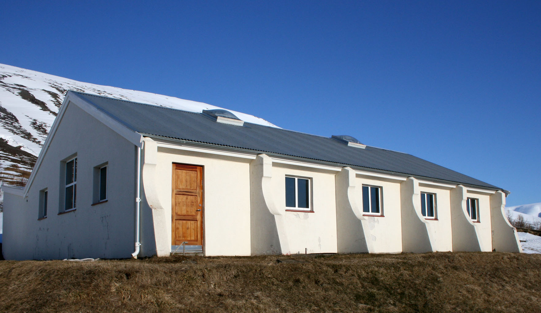 Svarfadardalur Swimming Pool